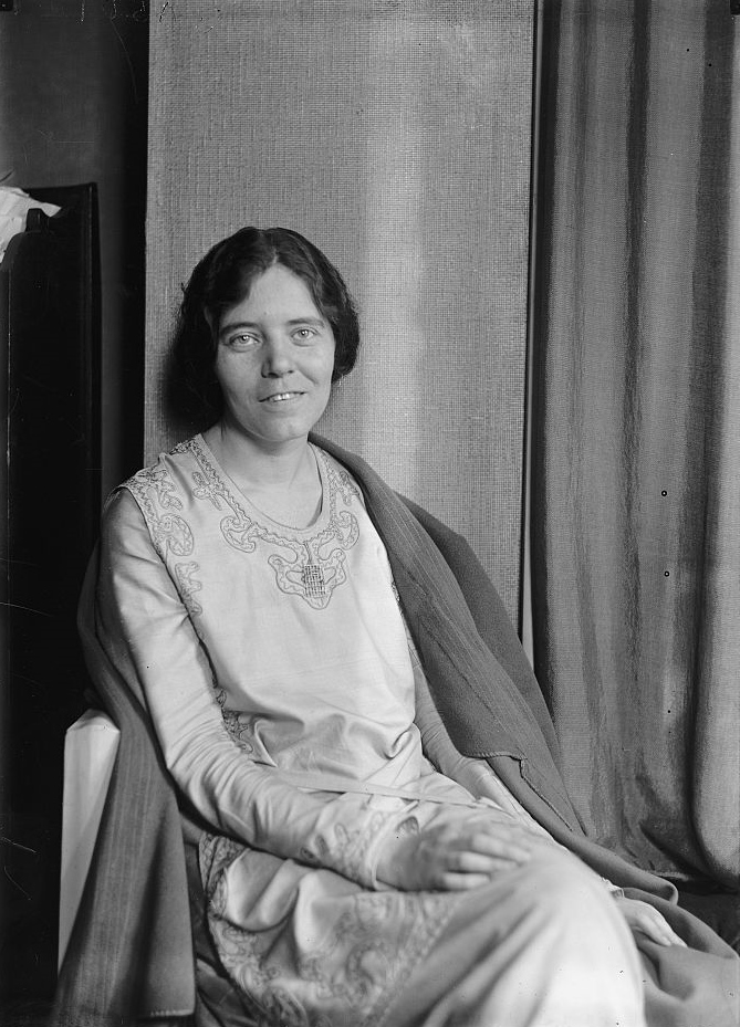 PAUL, ALICE